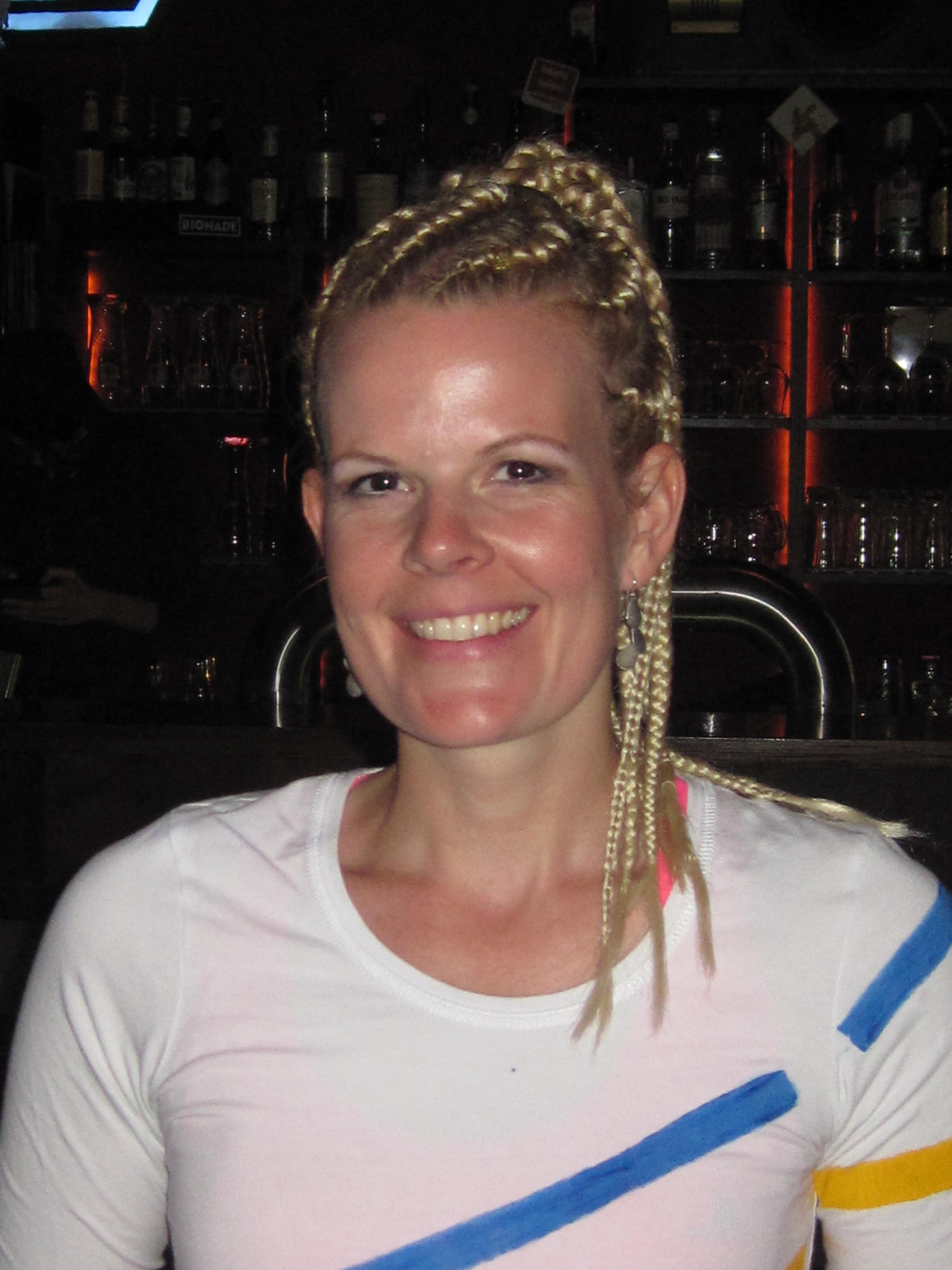 jazz drummer Lizzy Scharnofske after concert at jazz club Cavete May 2018